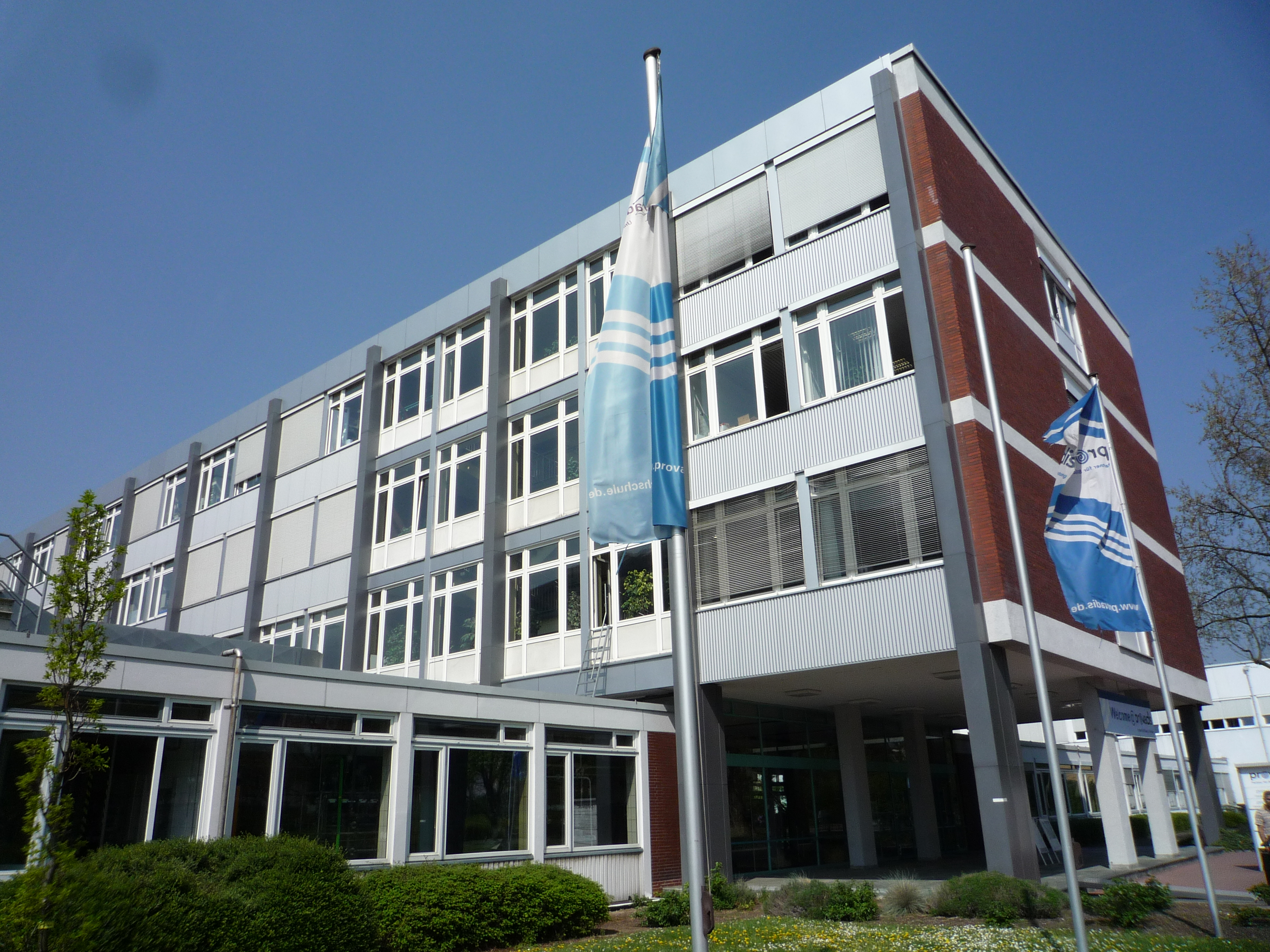 Picture of the Provadis Campus, Frankfurt